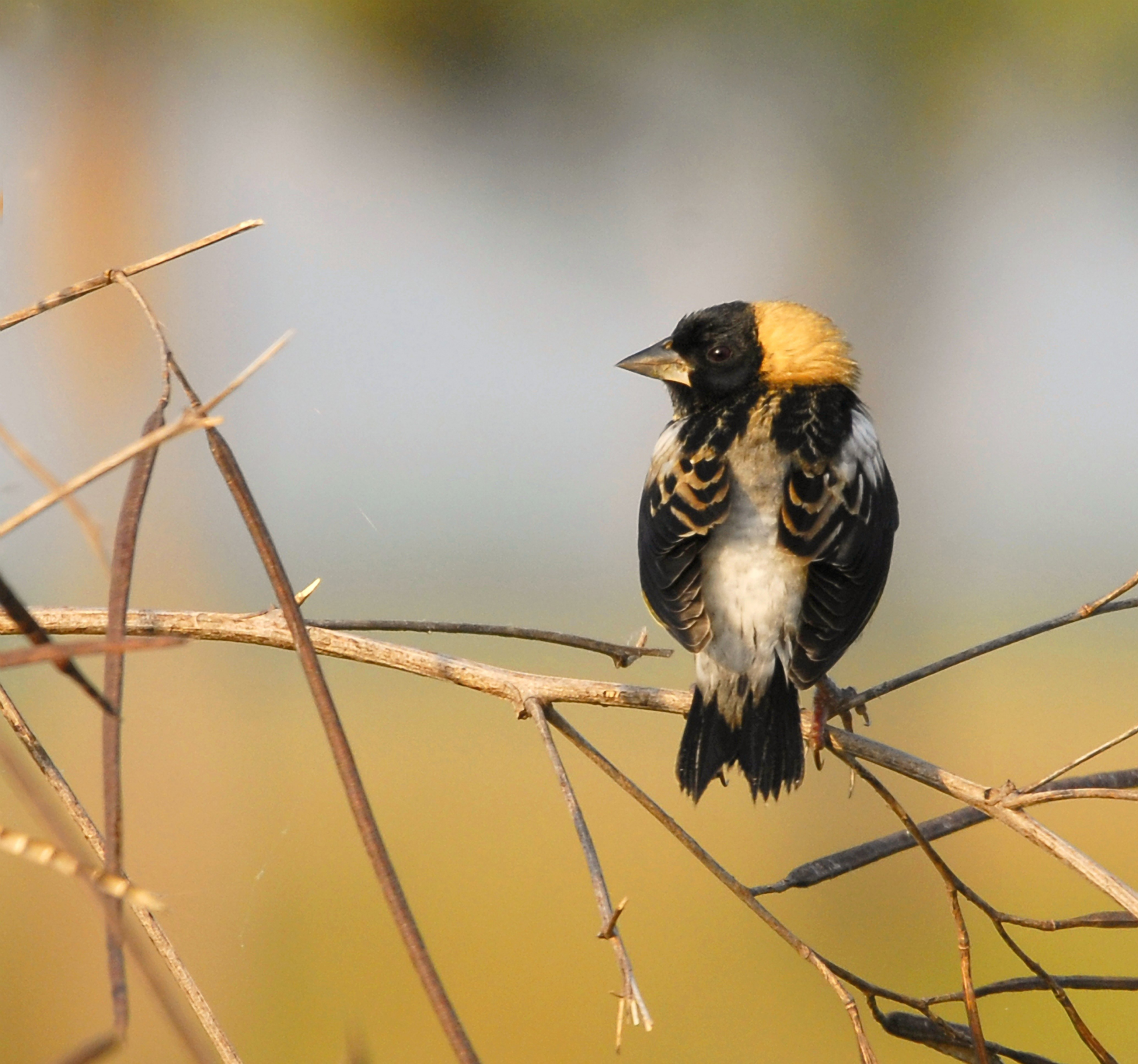 Bobolink at Lake Woodruff (Dolichonyx oryzivorus) see also